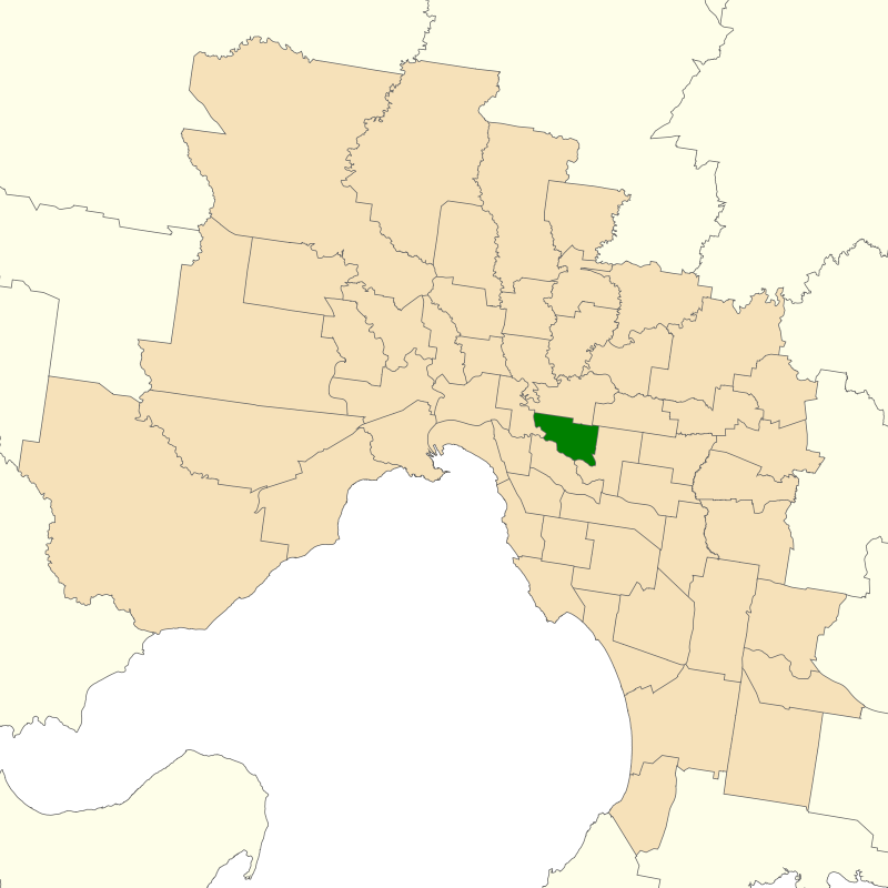 Location of the Victorian electoral district of Hawthorn (dark green) in the Greater Melbourne area.